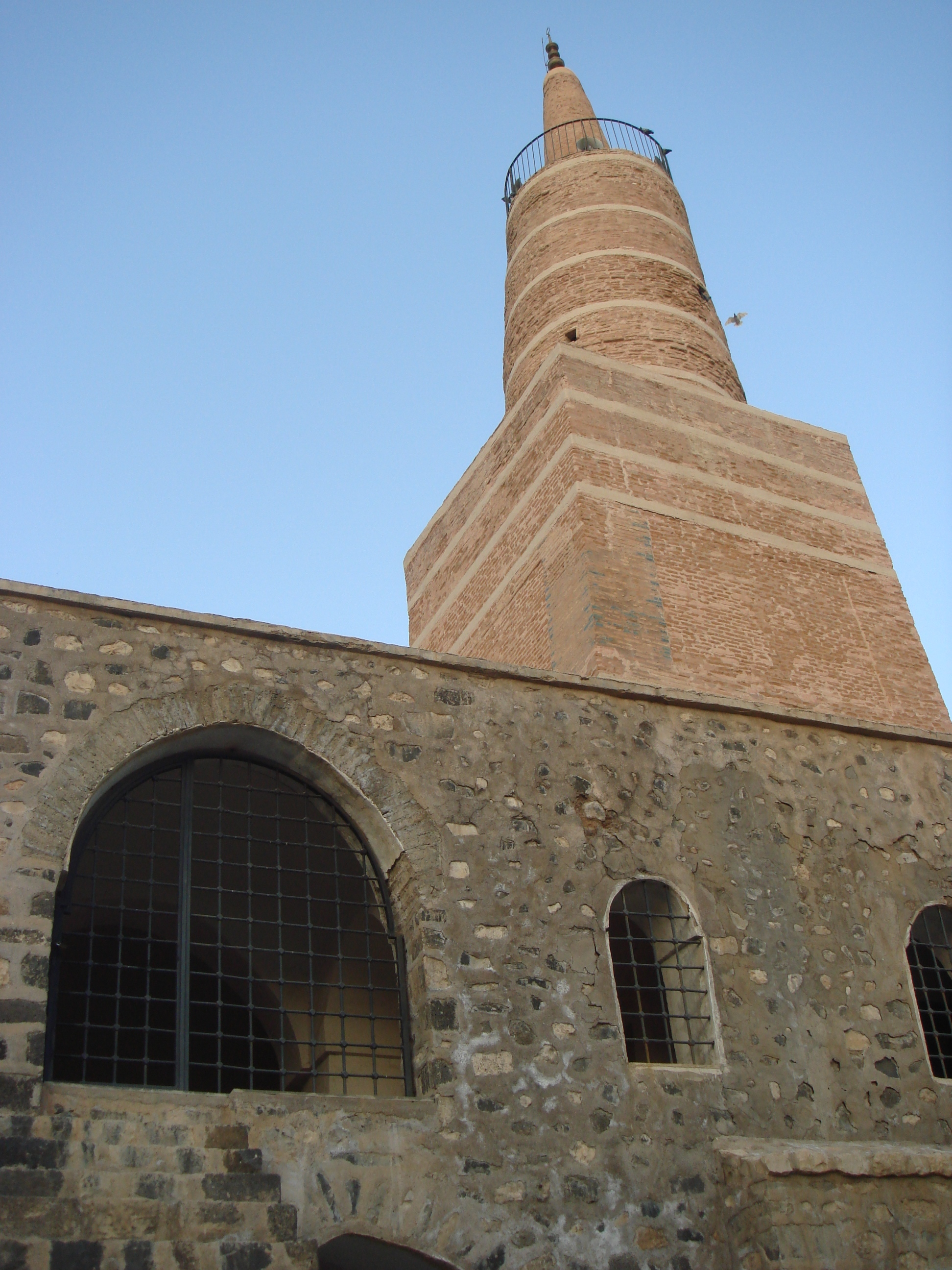 The Grand Mosque of Cizre, 2009. Kurdî: Mizgefta Mezin a Cizîra Botan, 2009.